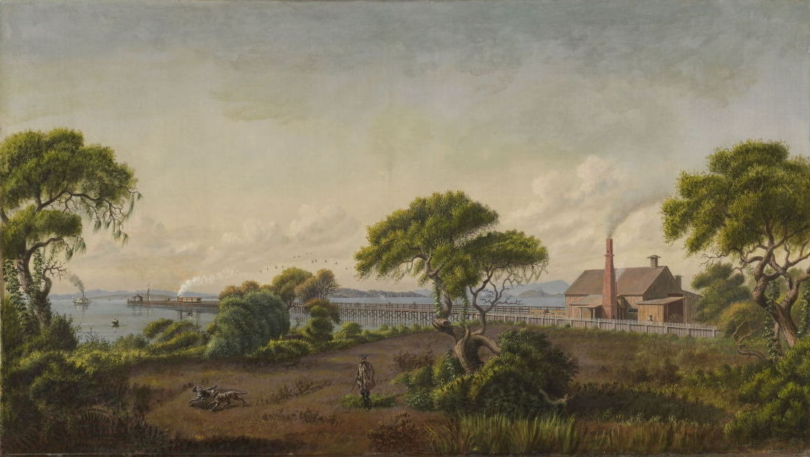 Joseph Lee's painting Alameda Shore, circa 1868. It depicts the Sophie MacLane approaching Cohen’s Wharf on August 25, 1864 - meeting the first trip of the San Francisco and Alameda Railroad.